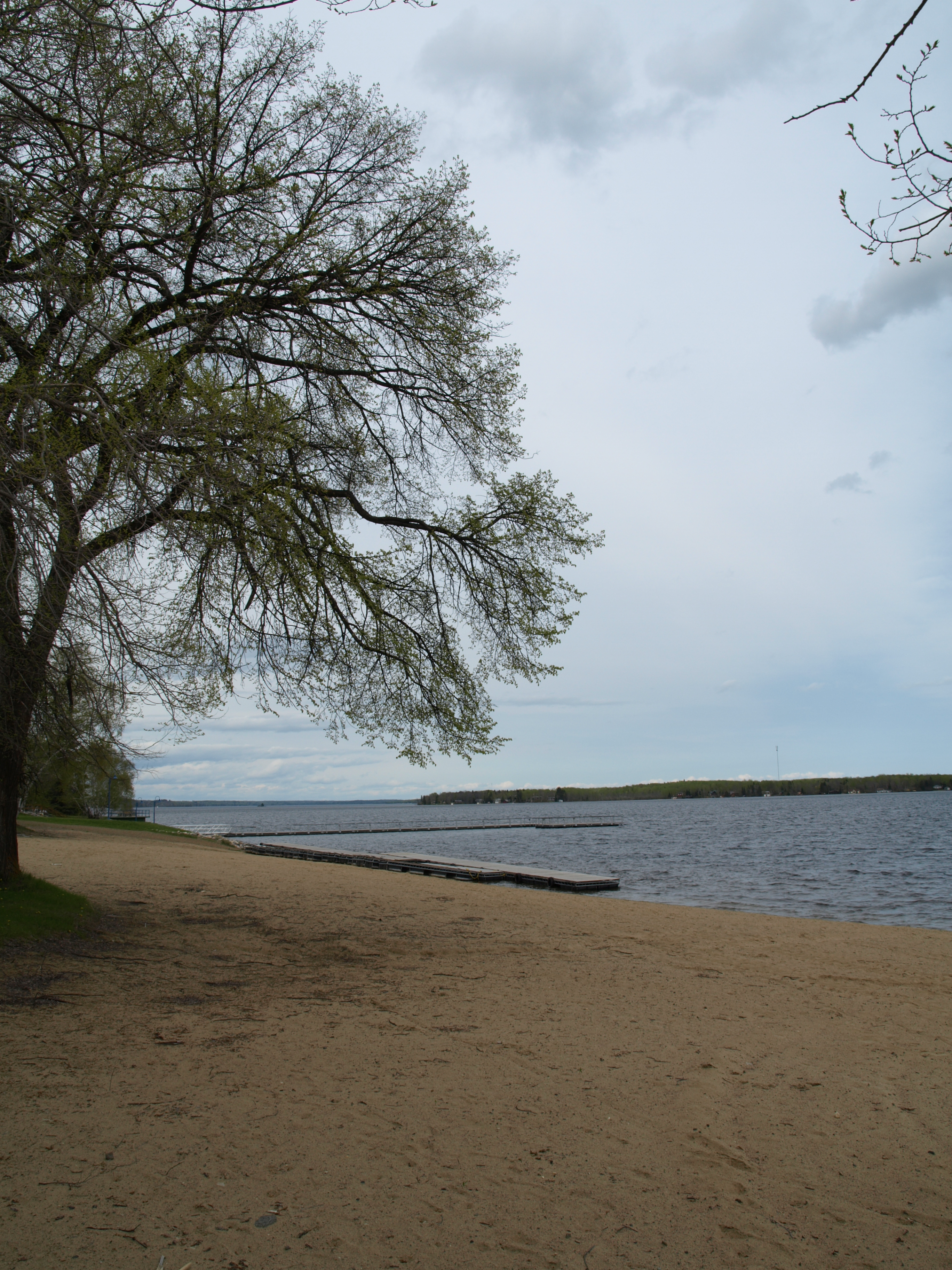 Falcon Lake Summer 2009 Manitoba Canada